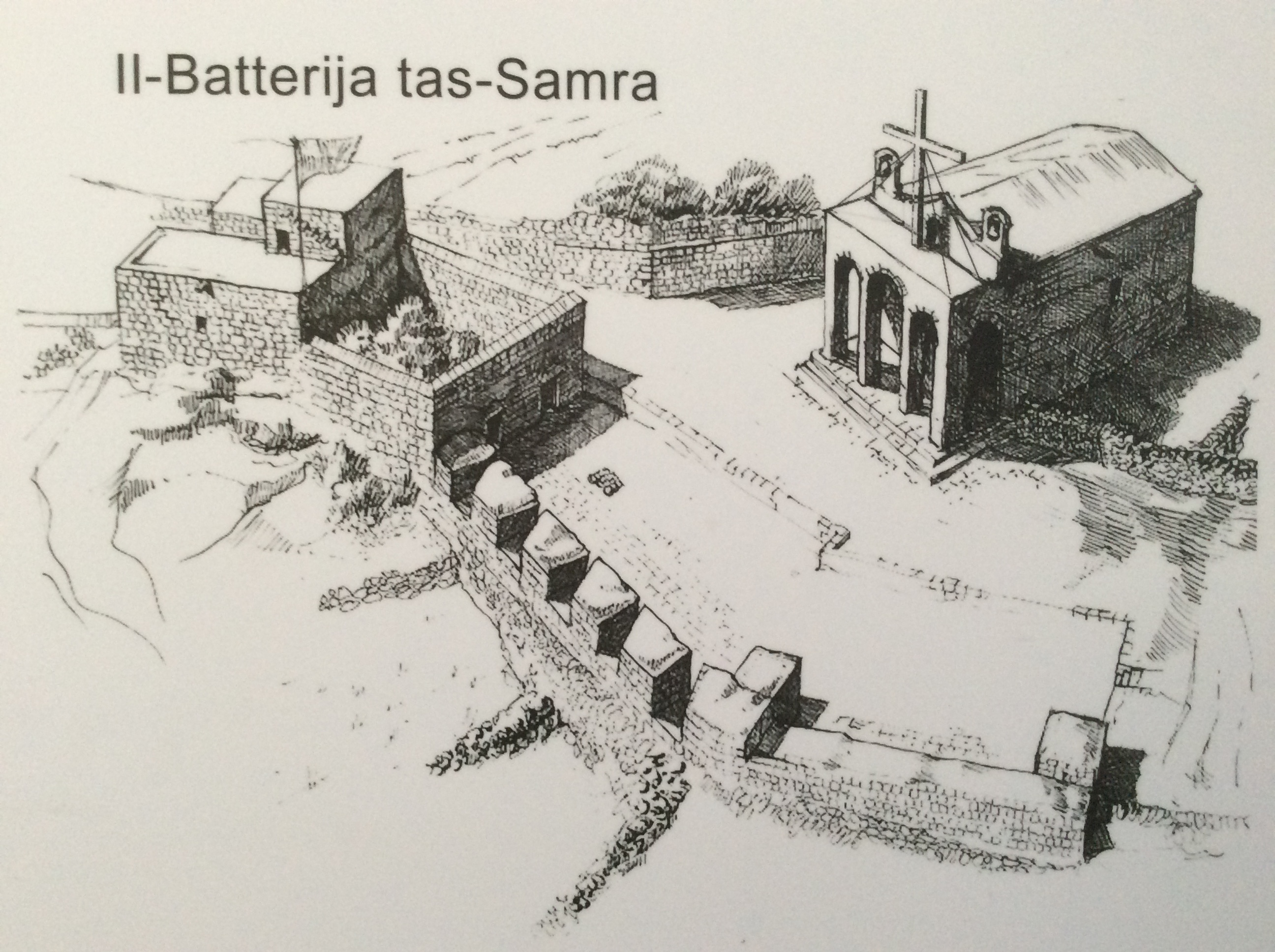 Valletta